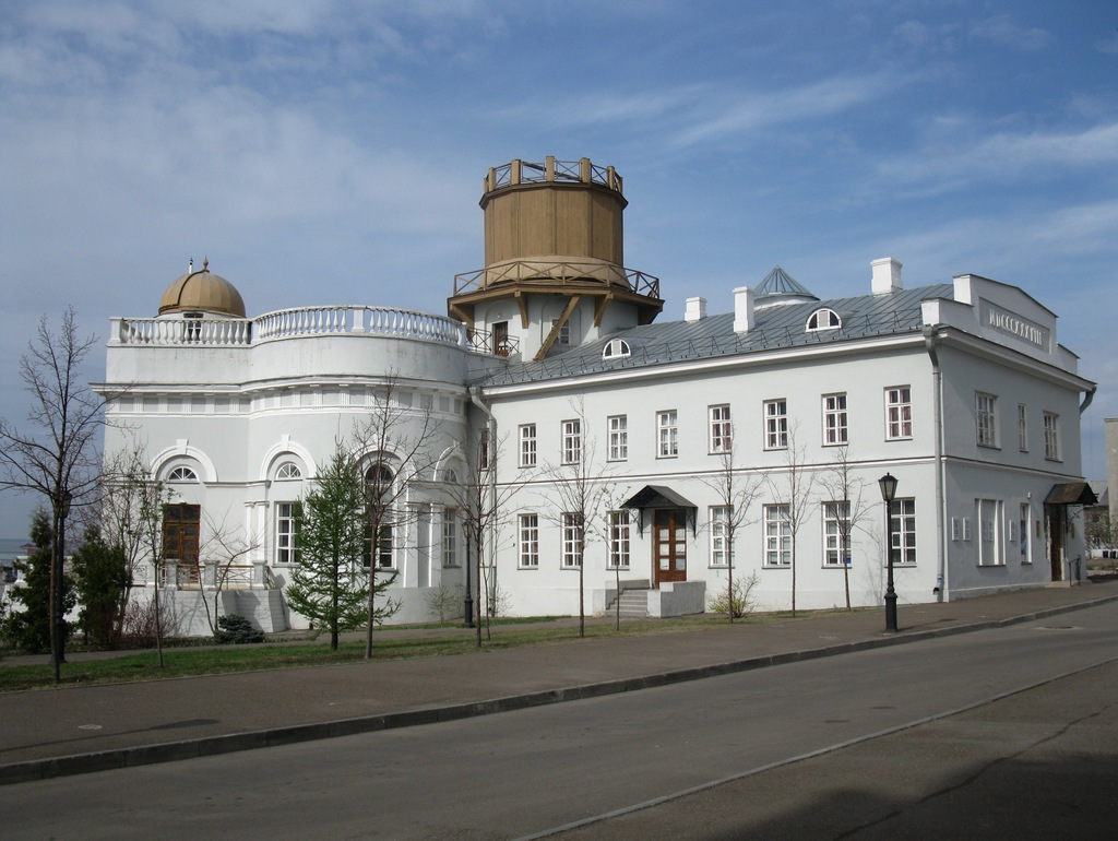 Astronomy Observatory of Kazan State University, Russia (1838)